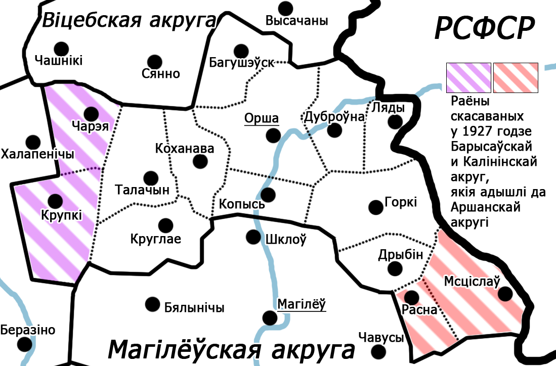 Orša county in Belarusian SSR, 1924—1930, with borders of its districts